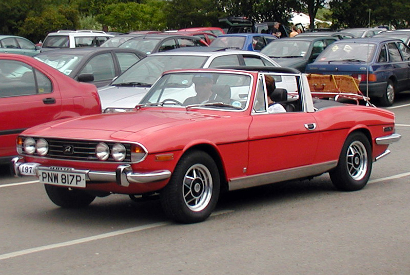 1975 Triumph Stag at a rally in Slimbridge, Gloucestershire, England.